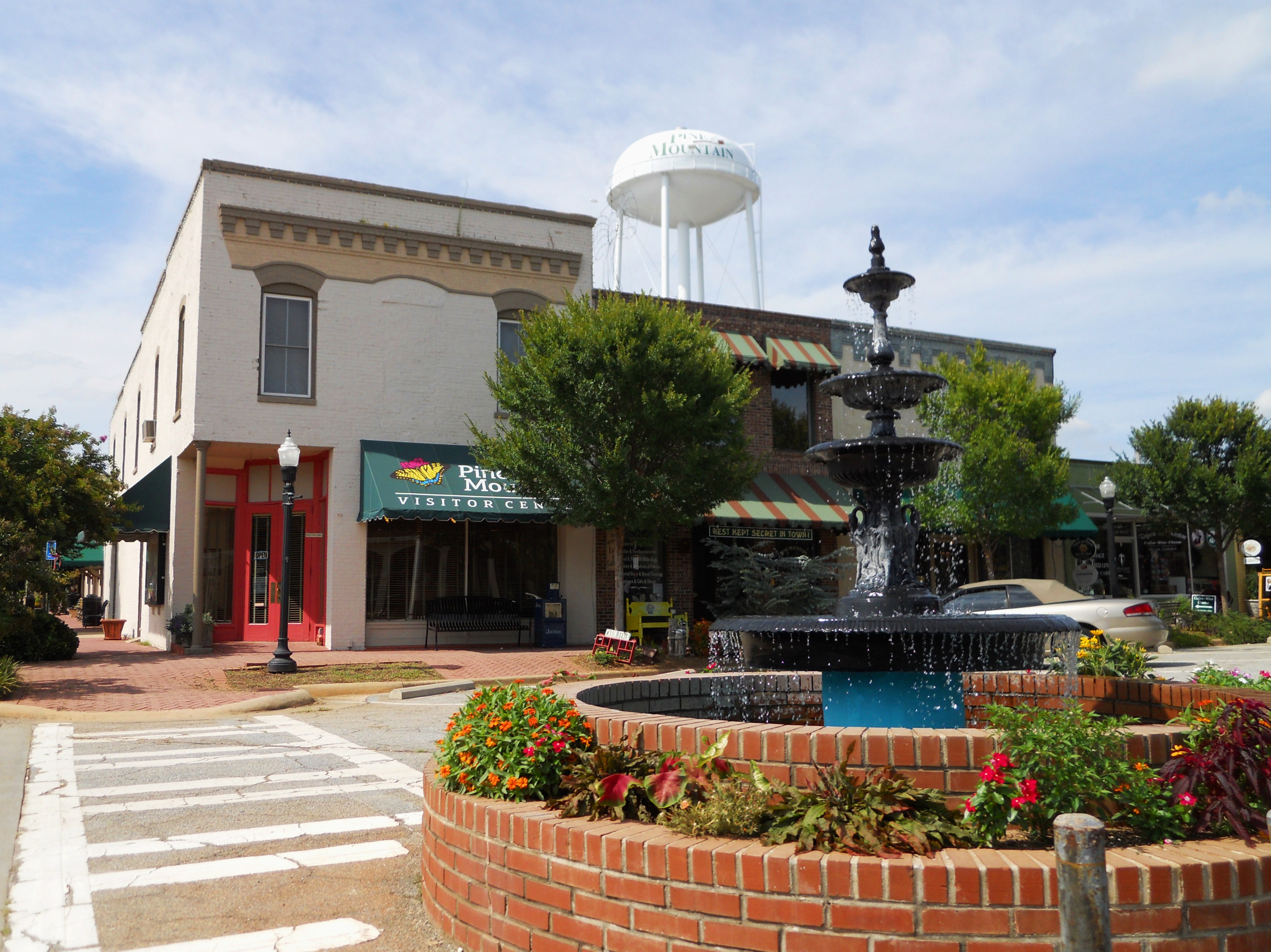 This is a photograph of downtown Pine Mountain, Georgia.